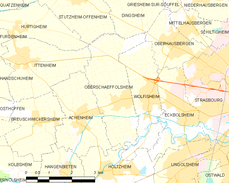 Map of French municipality